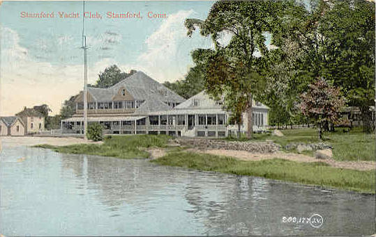 Postcard: Stamford Yacht Club in Stamford, Connecticut store Web page states: "1907 postally used divided back postcard pub by Globe Art Co., showing the Stamford Yacht Club in Stamford, CT."